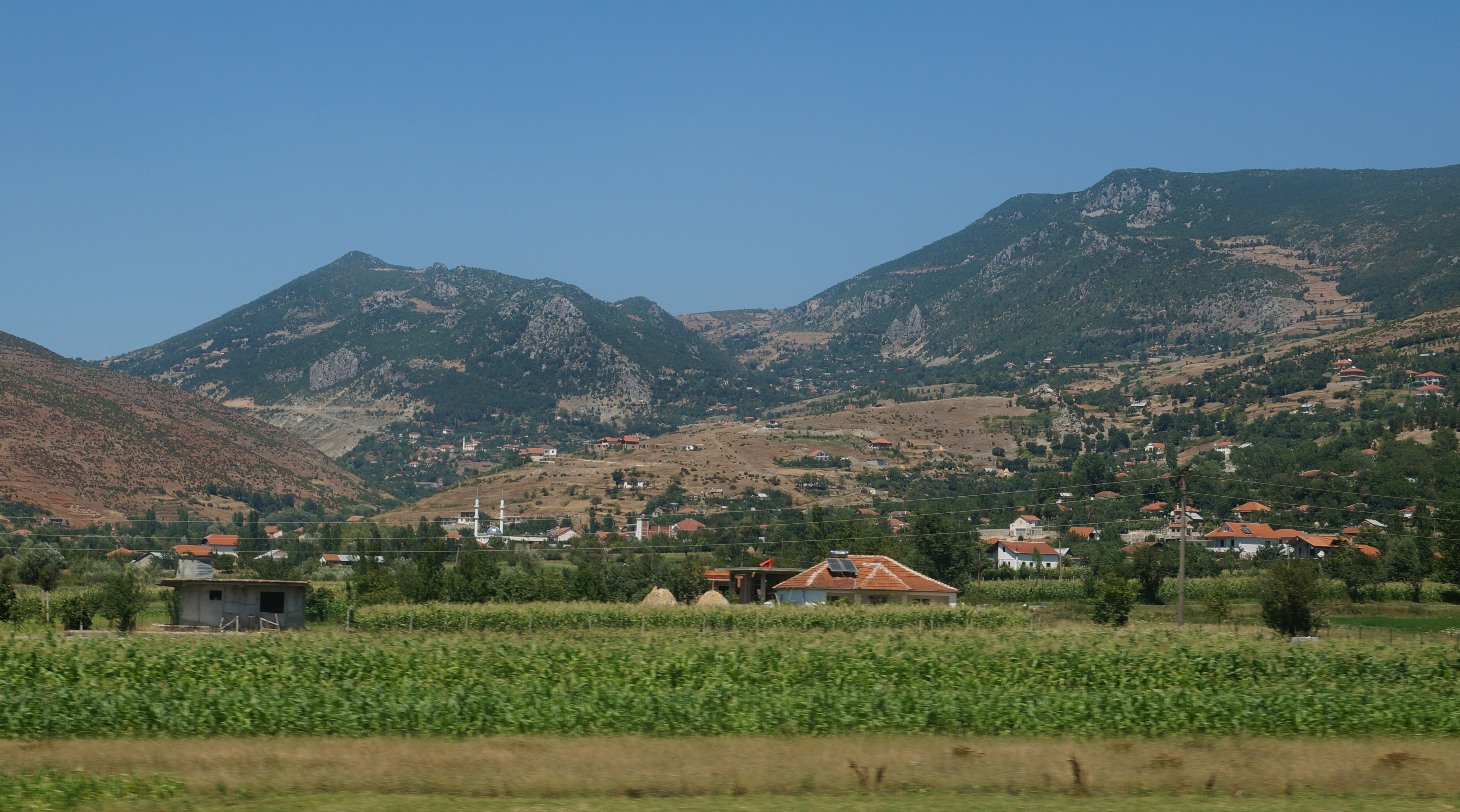 Rrajcë village in South-Eastern Albania